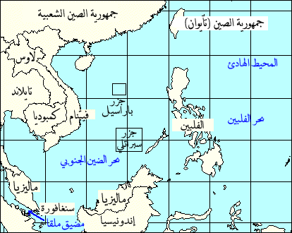 South China Sea in Arabic.